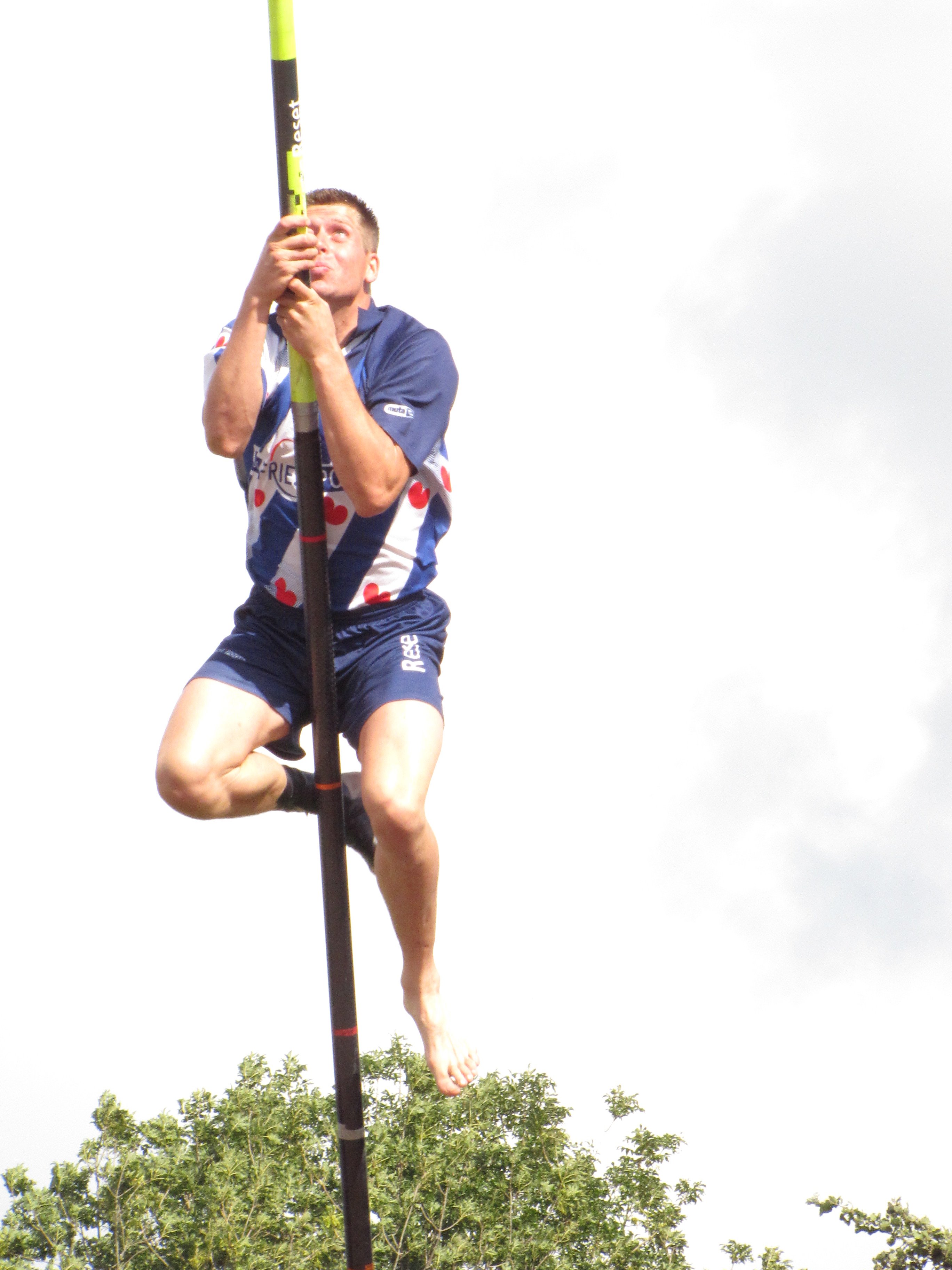 Dutch Championships Fierljeppen 2010 - Bart Helmholt